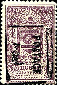 1926 5c plum, black overprint, hinged, signed